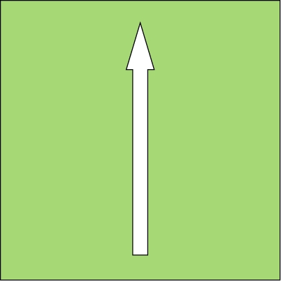 Arrow of Law as depicted in the Corum comic book adaptation